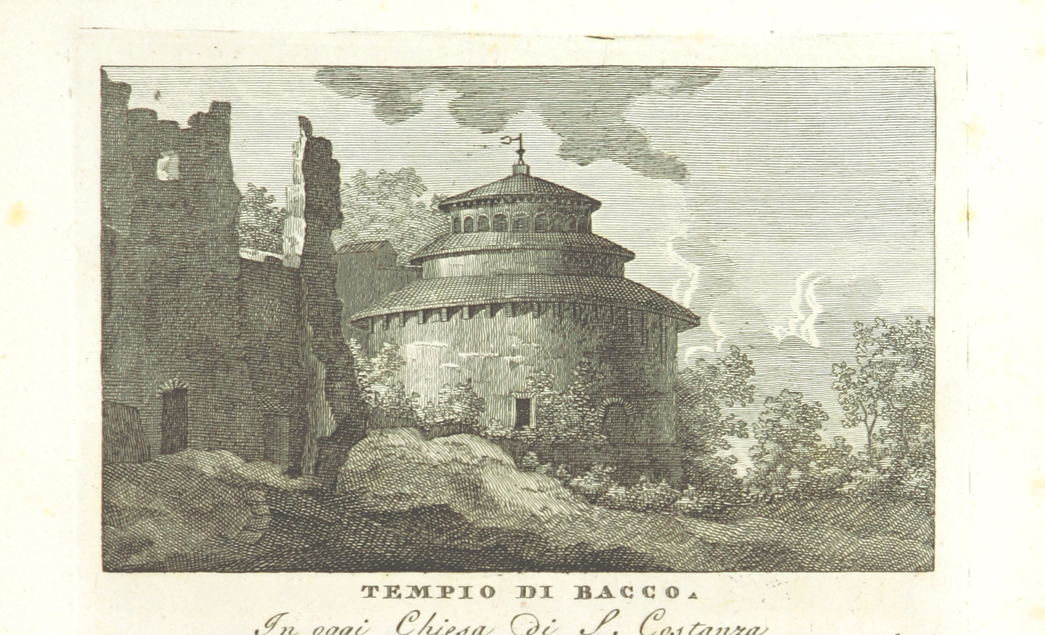 Title: "Vedute antiche e moderne le più interessanti della città di Roma, incise da vari autori, in numero 100. (Explication ... rédigée ... par E. Piale.)", "Appendix. Topography" Contributor: PIALE, Stefano. Author: Rome (Italy) Shelfmark: "British Library HMNTS 10131.h.1." Page: 49 Place of Publishing: Rome Date of Publishing: 1820 Publisher: V. Monaldini Issuance: monographic Identifier: 003147404